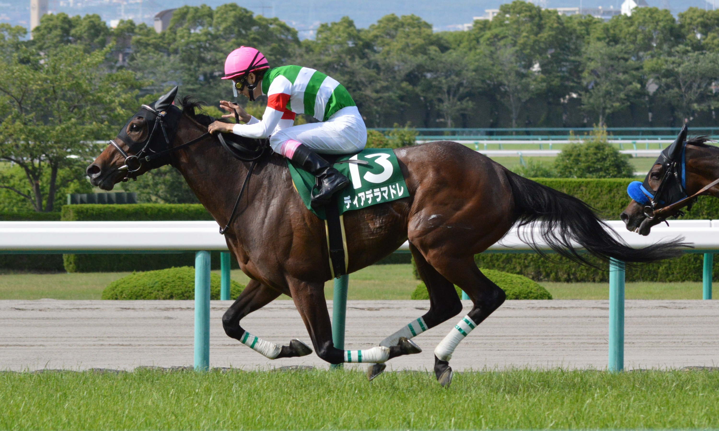 Japanese race horse Dia de la Madre at Hanshin racecourse.